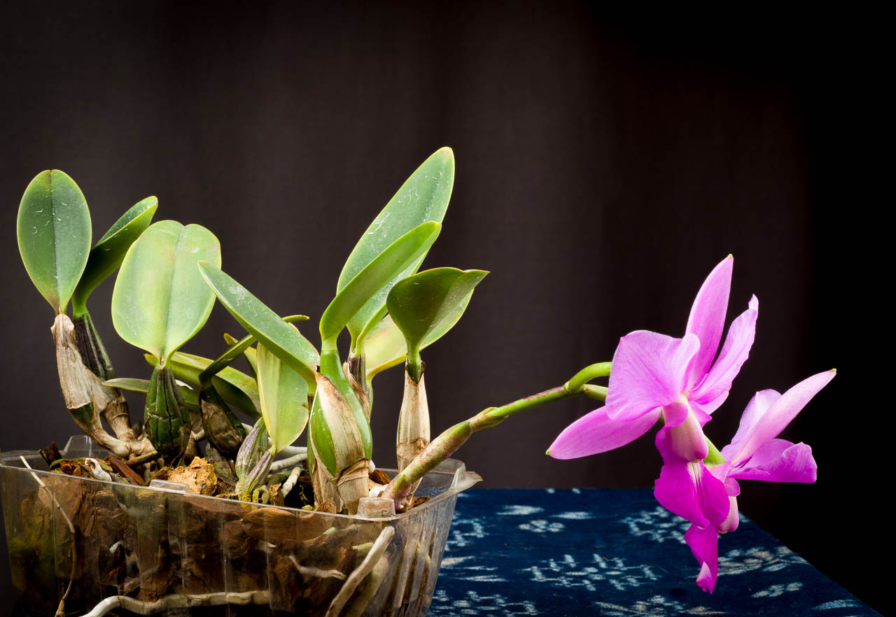 Link to my Orchid Borealis blog post - Cattleya walkeriana